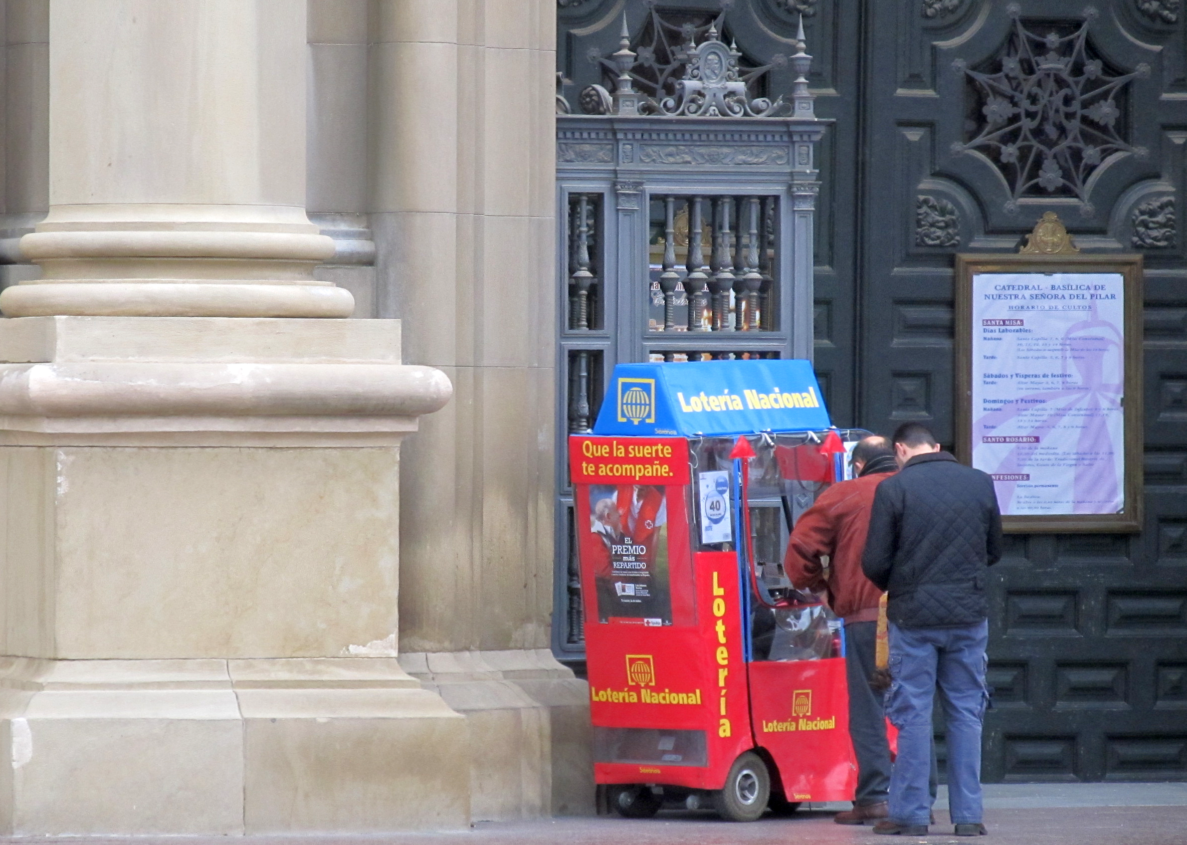 Spanish national lottery: ticket selling in Plaza del Pilar (Zaragoza)